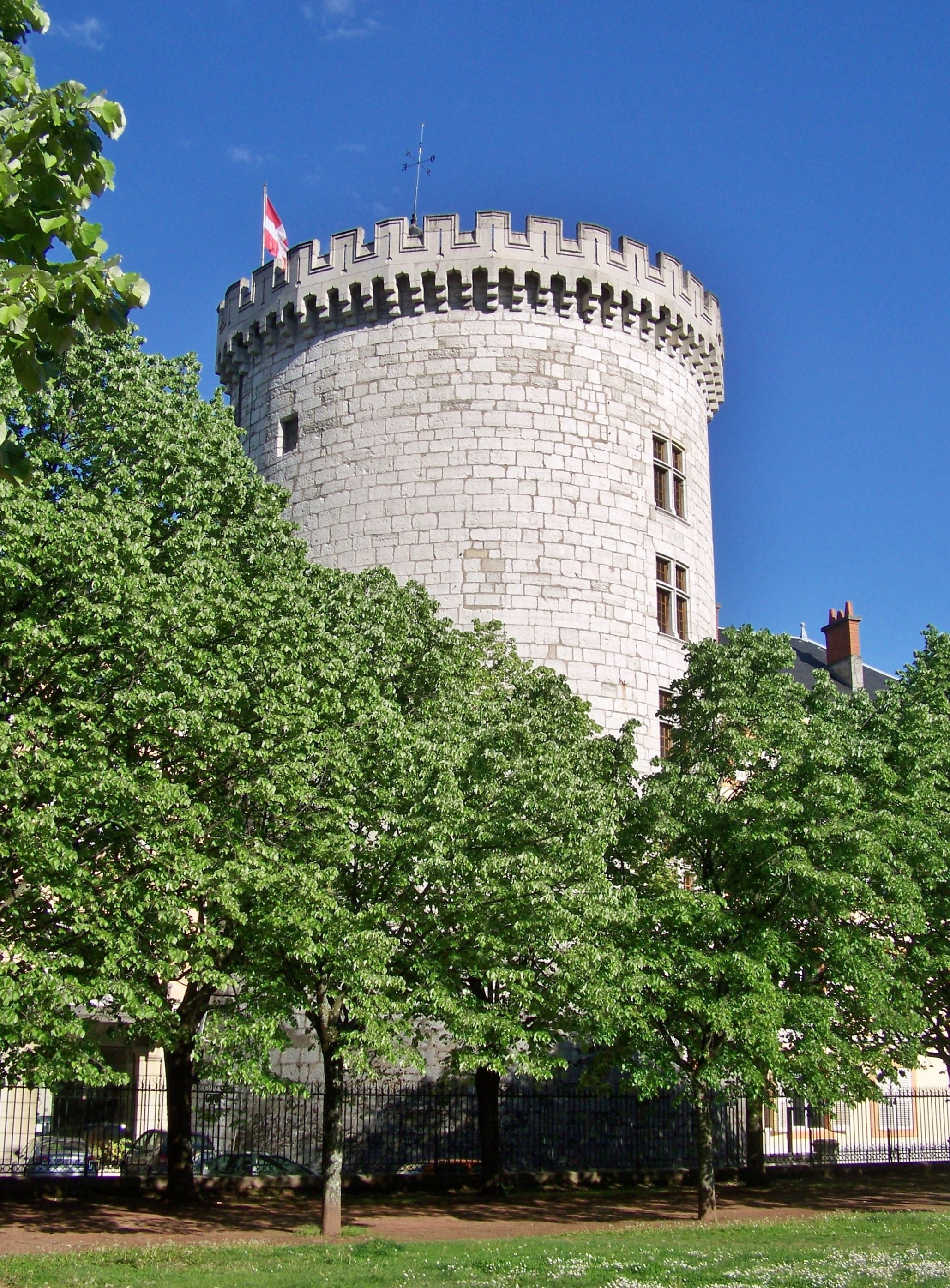 Sight of the tour demi-ronde tower ("half-circled tower"), part of the French city of Chambéry castle, in Savoie.